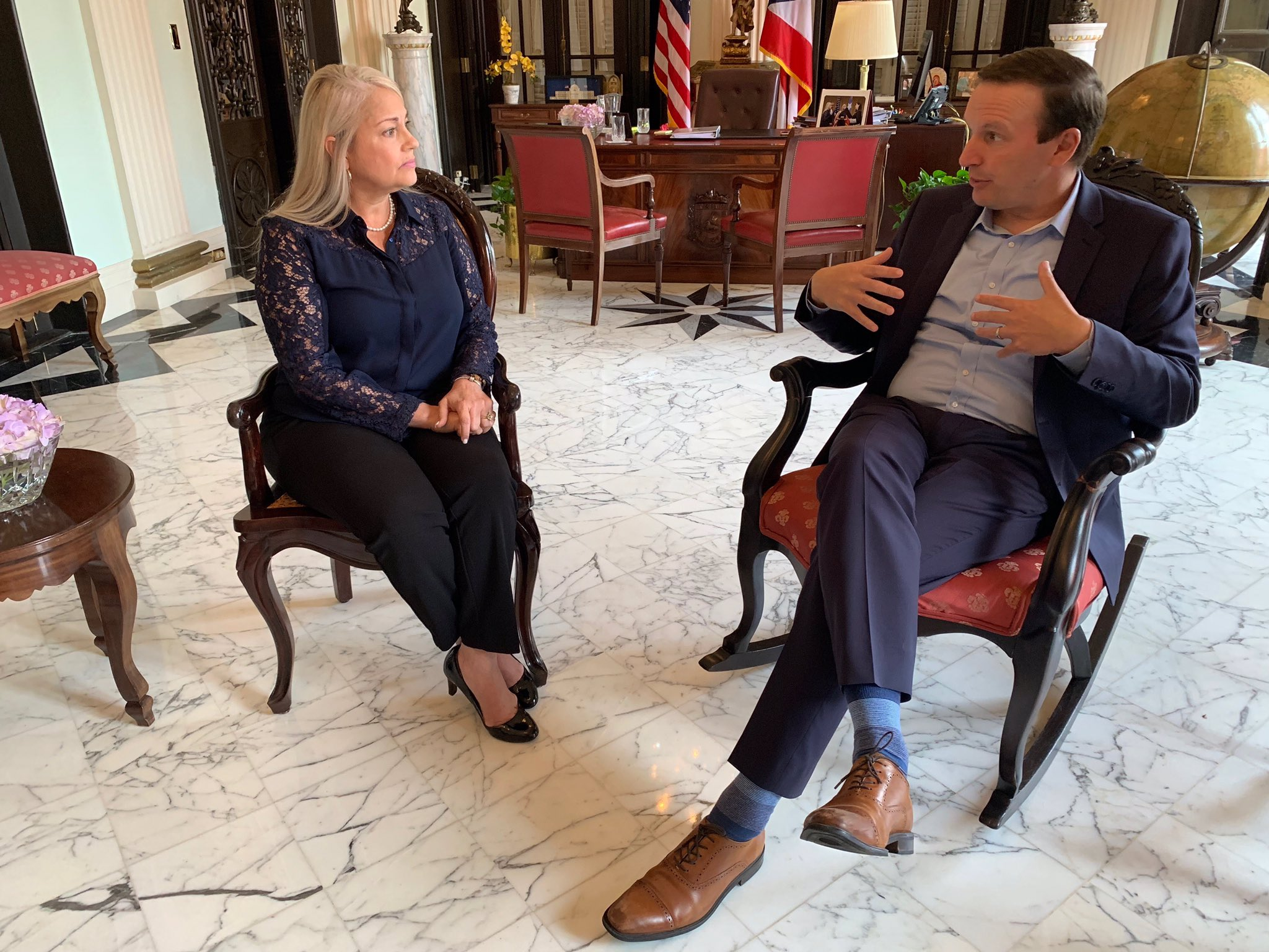 Finally back on American soil - San Juan, Puerto Rico! Stopping here this weekend to get a quick update on the harm of Trump’s continued refusal to release reconstruction money to Puerto Rico. Here chatting w the new governor, Wanda Vasquez.